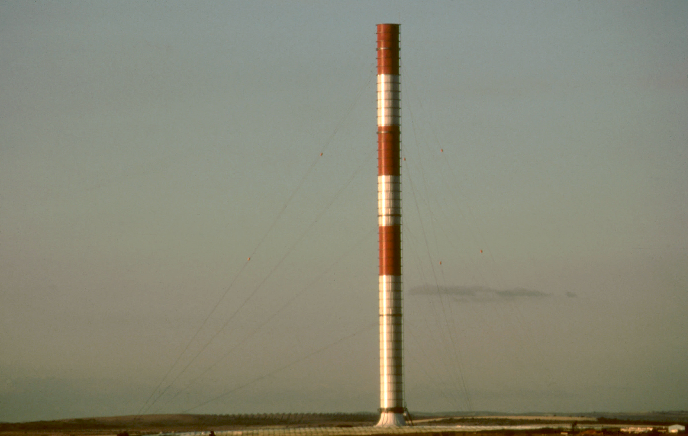 Solar Chimney prototype at Manzanares, Spain. View from south 8km away